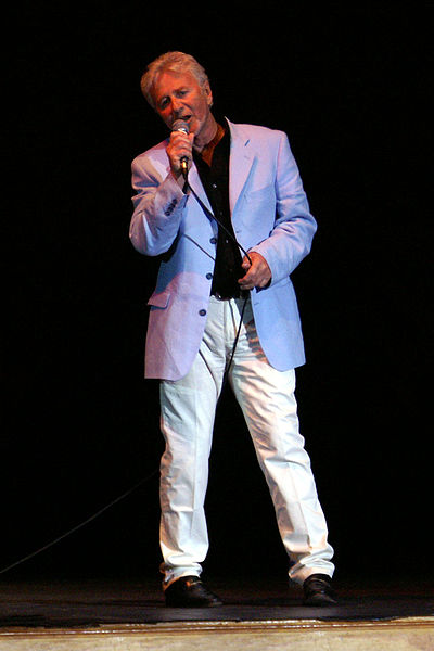 Taken at the Caravan Of Stars XV in Henderson, Tennessee, on May 17th, 2008 by Kenneth Dwain Harrelson.